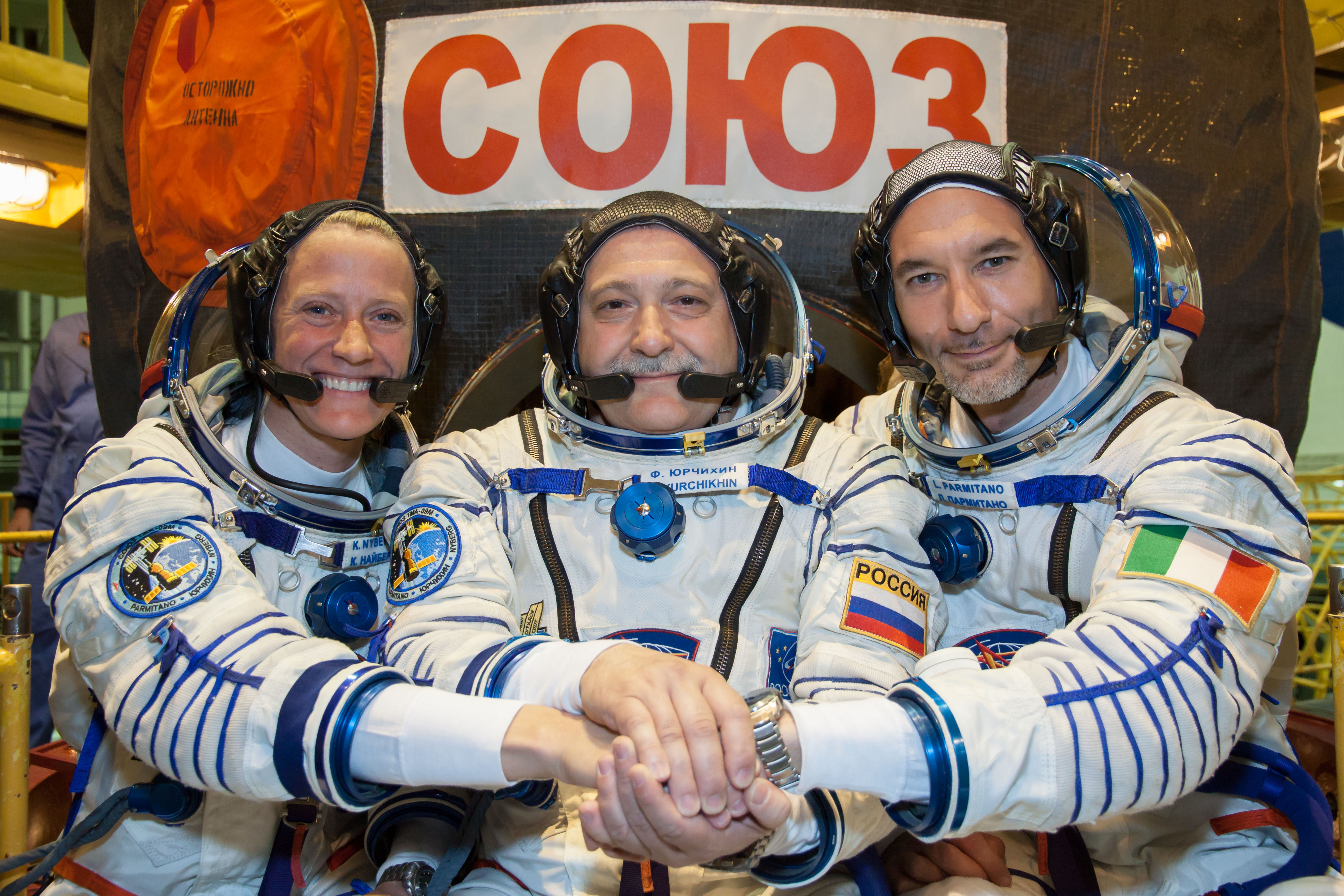 In the Integration Facility at the Baikonur Cosmodrome in Kazakhstan, Expedition 36/37 Flight Engineer Karen Nyberg of NASA (left), Soyuz Commander Fyodor Yurchikhin (center) and Flight Engineer Luca Parmitano of the European Space Agency (right) pose for pictures during a suited dress rehearsal "fit check" exercise May 17. The trio will launch May 29, Kazakh time, in their Soyuz TMA-09M spacecraft to begin a 5 ½ month mission on the International Space Station.